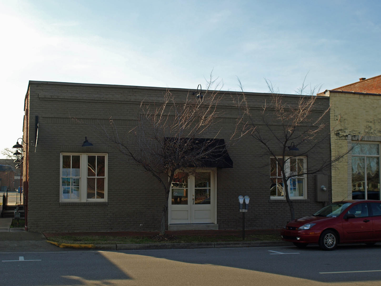 305 North Jefferson Street in Huntsville, Alabama, listed on the National Register of Historic Places.